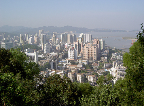 Zhuhai, (Xiangzhou), Guangdong Province, China, Skyline. Photo taken in summer 2007 by me.